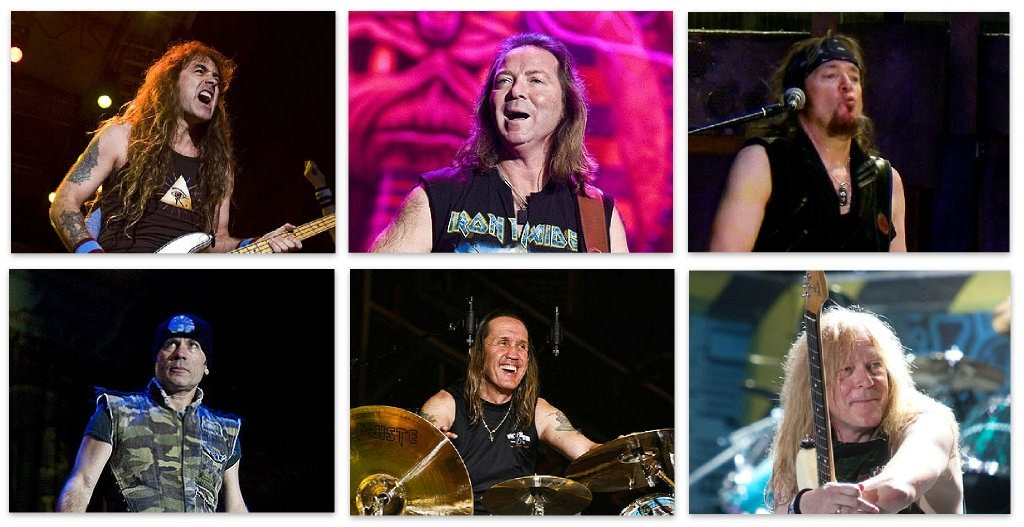 Steve Harris, Dave Murray, Adrian Smith, Bruce Dickinson, Nicko McBrain and Janick Gers of Iron Maiden